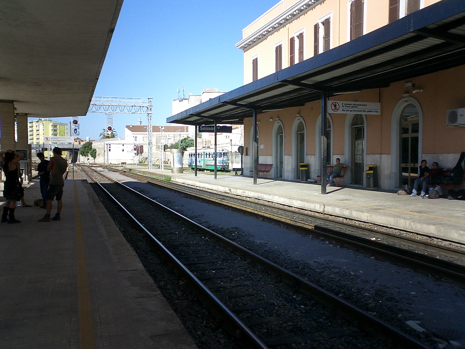 The railway station of Sassari, Sardinia, Italy